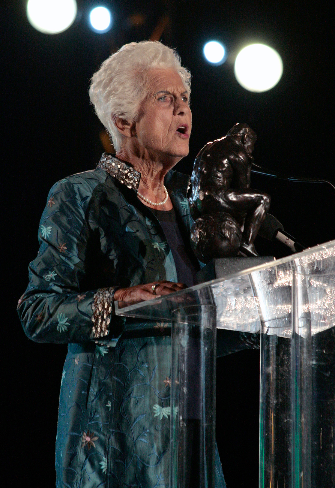 Freda Meissner-Blau during the Save the World Awards 2009 (Zwentendorf Nuclear Power Plant, Lower Austria).